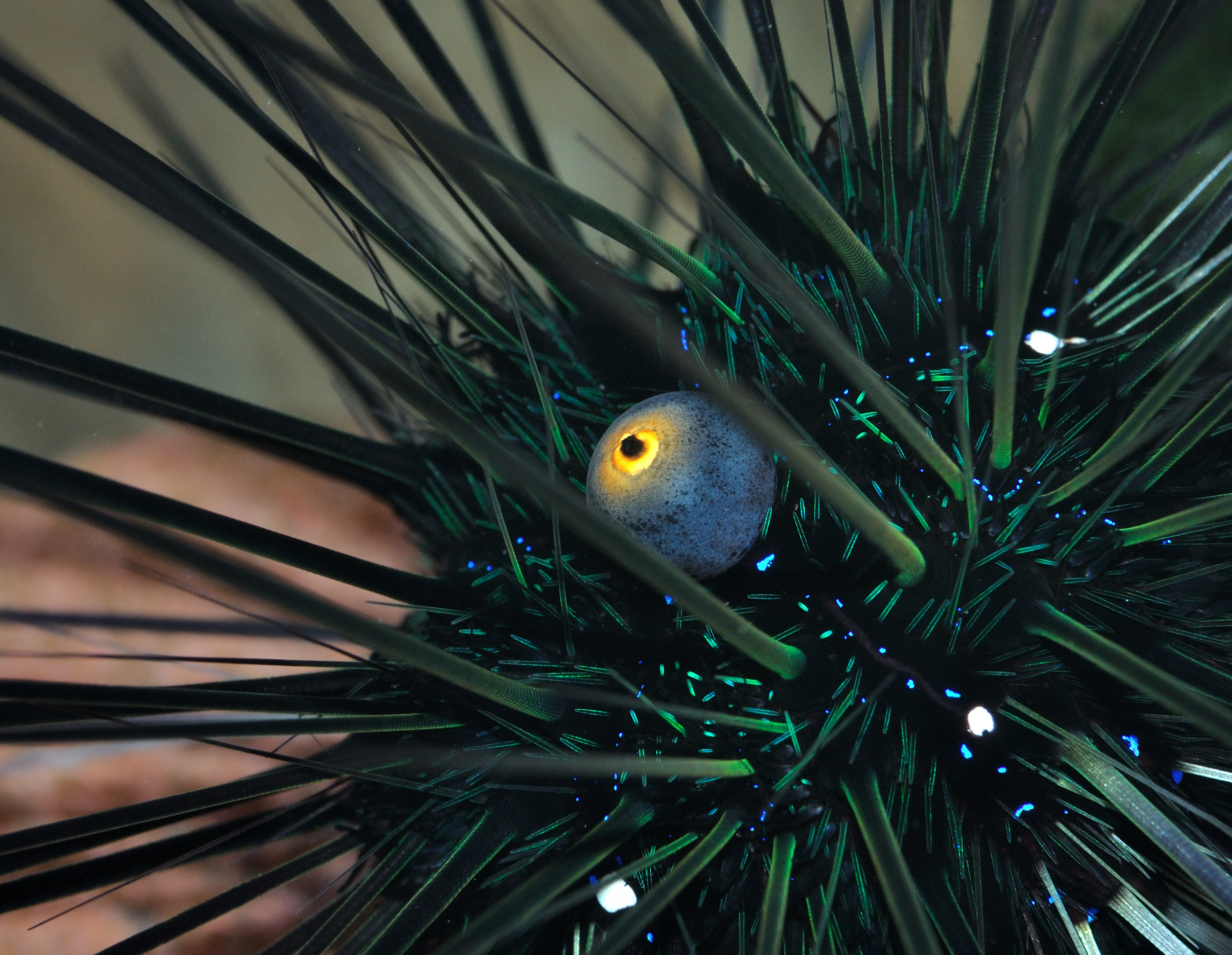 Periproctal cone of a Black Longspine Urchin (Diadema setosum) in the Wilhelma, Stuttgart, Germany.